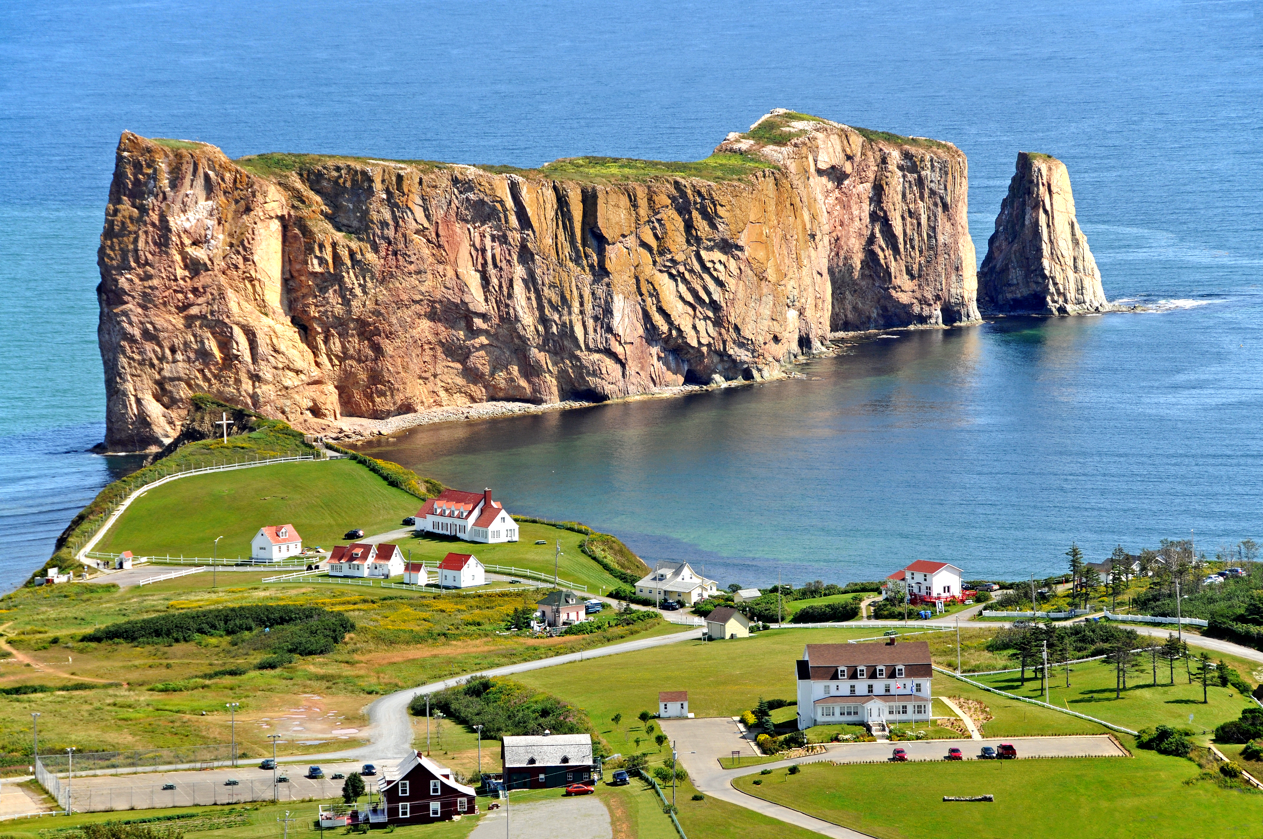 Percé (2006 Population 3,419) is a small village near the tip of the Gaspé Peninsula in Québec. It has a long history of being an important seasonal fishing centre under the French. Today the area is mainly a tourist location particularly well-known for the attractions of Percé Rock and Bonaventure Island. Percé Rock is a natural rock formation located close to the shore facing the town. It is a natural tourist attraction for its size, color, and unusual door-like hole at one end the rock.